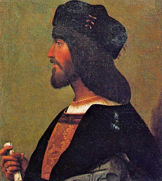 probably a copy of a painting by Bartolomeo Veneto cropped version of